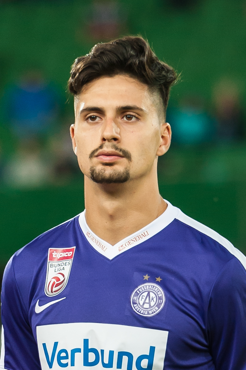 UEFA Europa League - FK Austria Wien vs FK Kukesi, 2016-07-14.